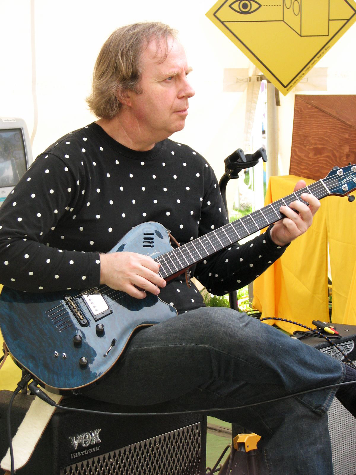 work-shopping at the kid's fest.